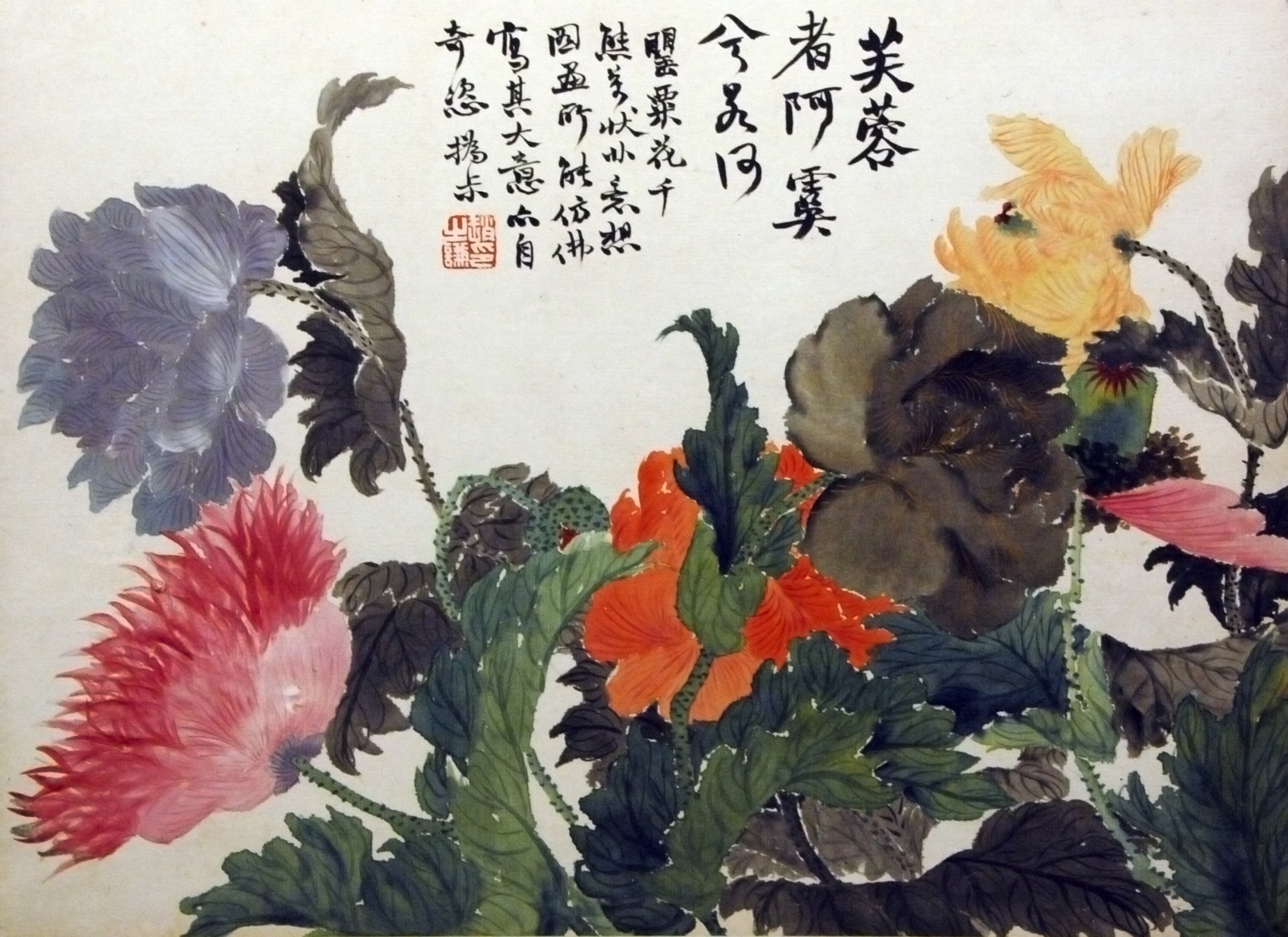 A leaf from the album "Flowers" by Zhao Zhiqian (1829-1884). This album was completed in the 9th year of the Xiangfeng reign (1859).